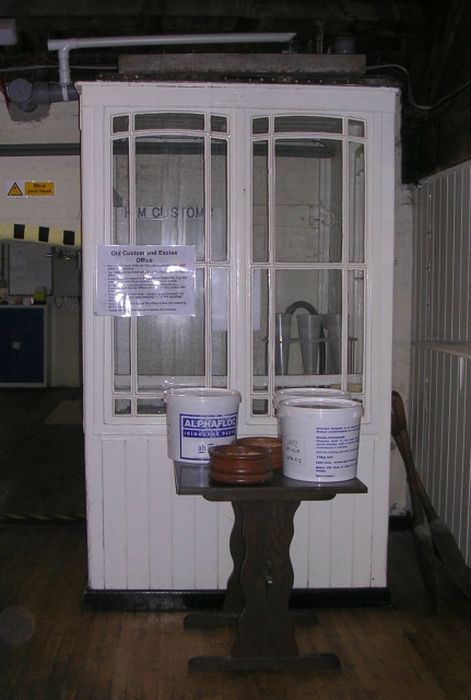 Old Custom & Excise Office - Wadworth Brewery